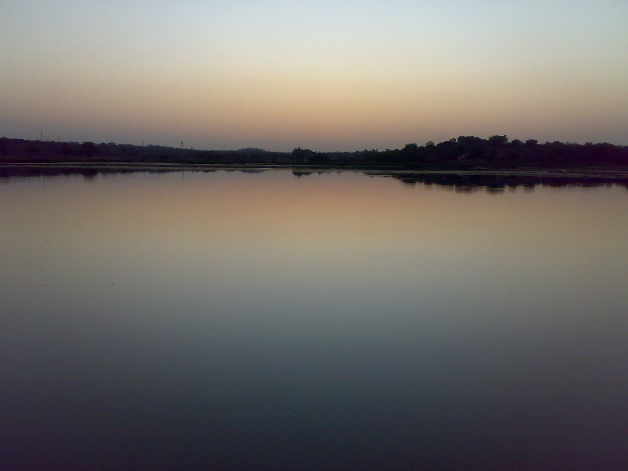 Photo of ajanti dam at sunset